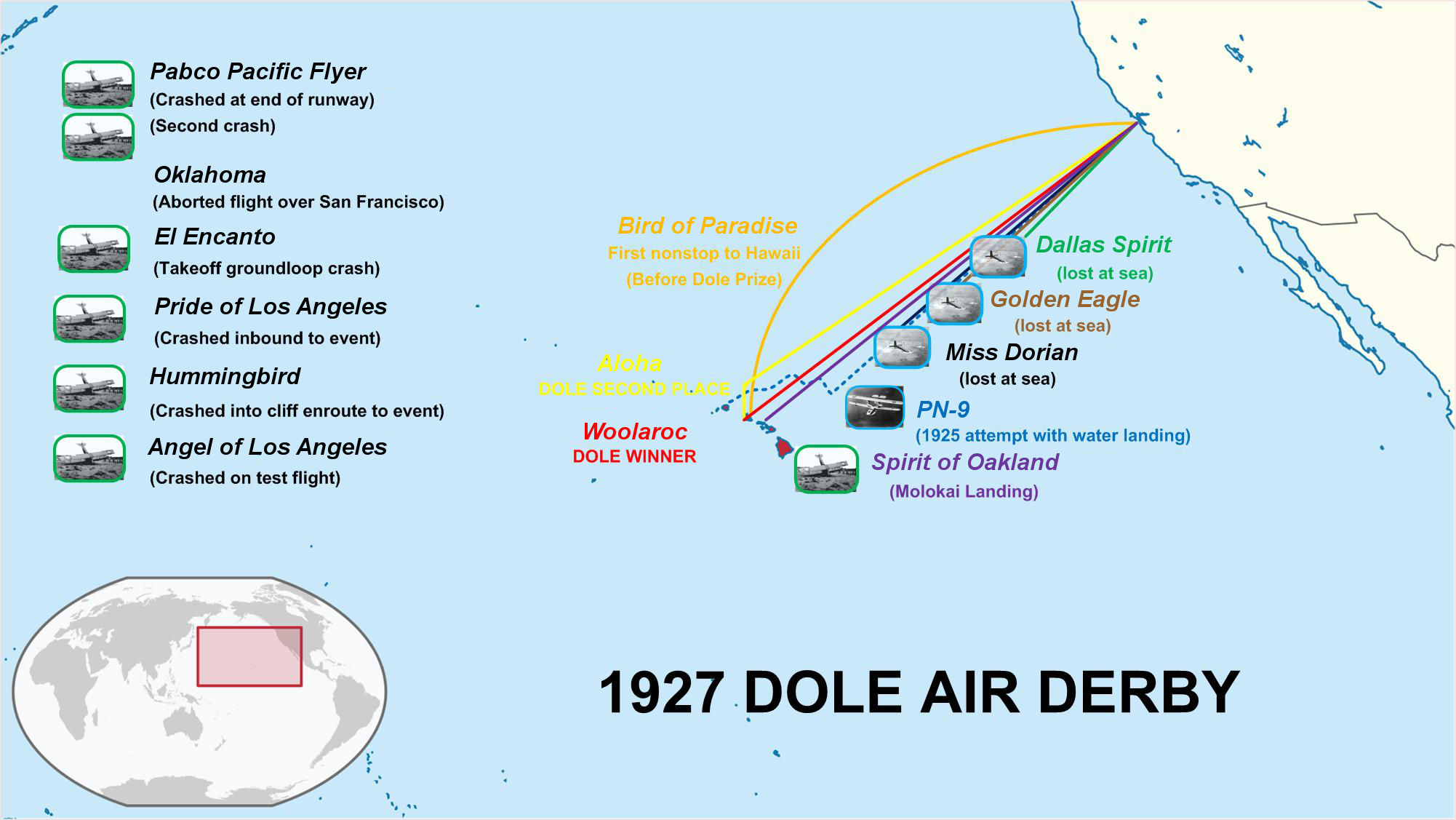 1927 Dole Air Derby